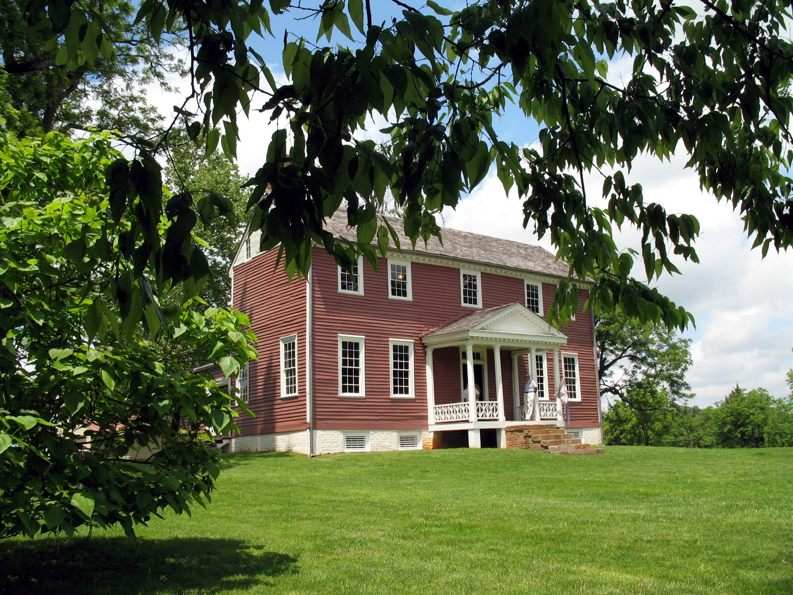 Ellwood Manor, Wilderness Battlefield, Route 20, Locust Grove, Virginia.